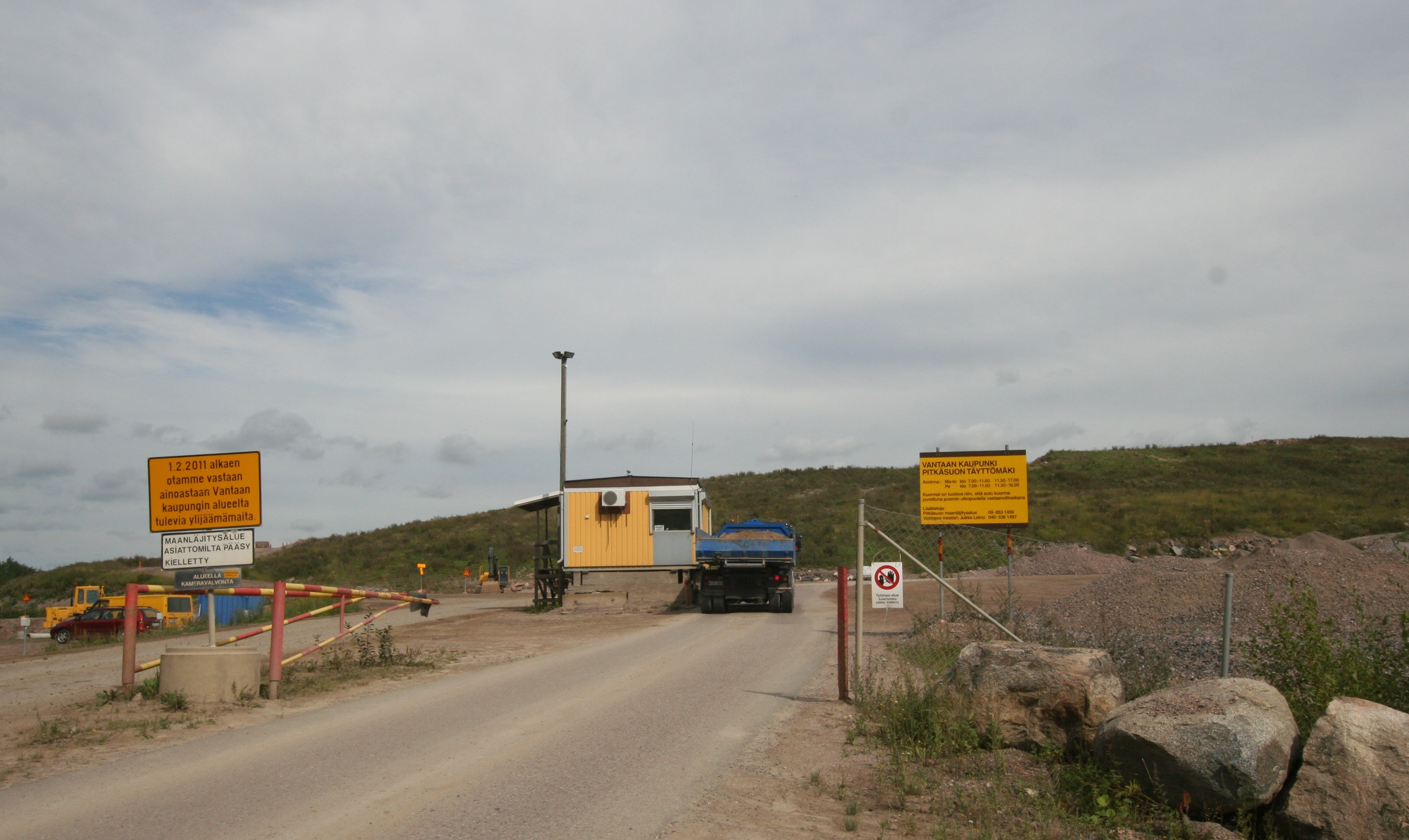 Pitkäsuo artificial hill